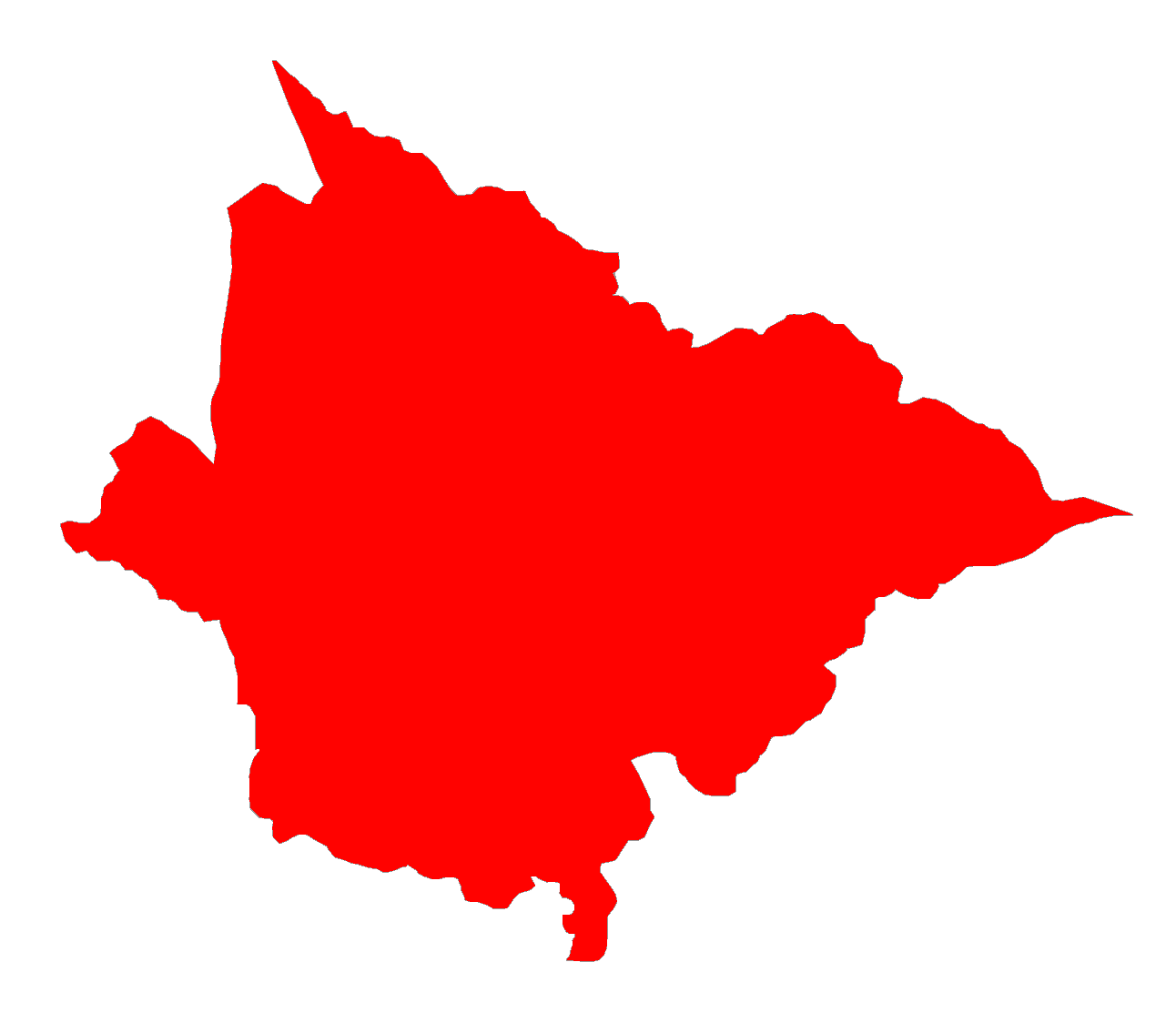 neighborhood/district of Santa Maria, Rio Grande do Sul